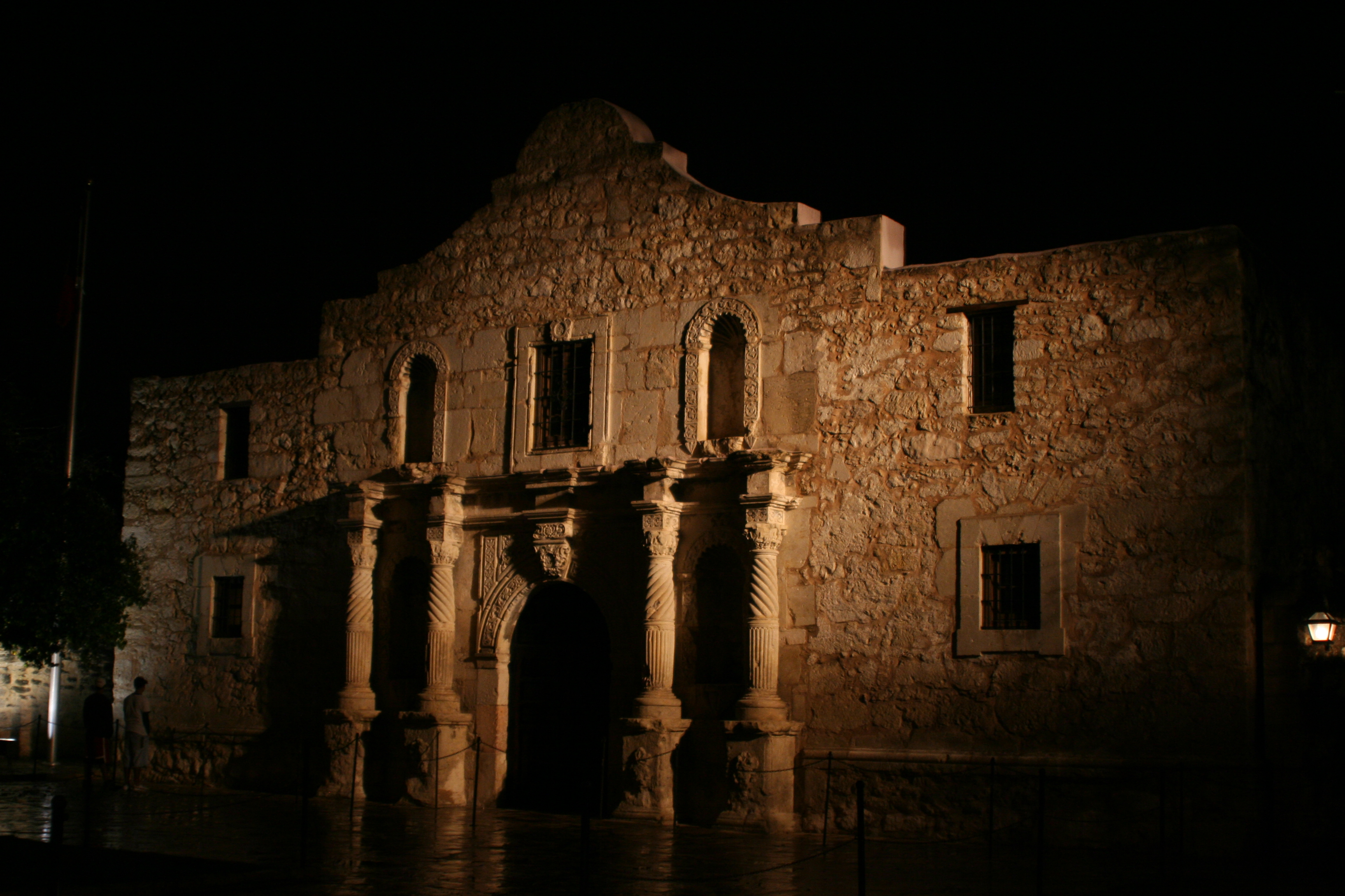 The Alamo in San Antonio, Texas at night